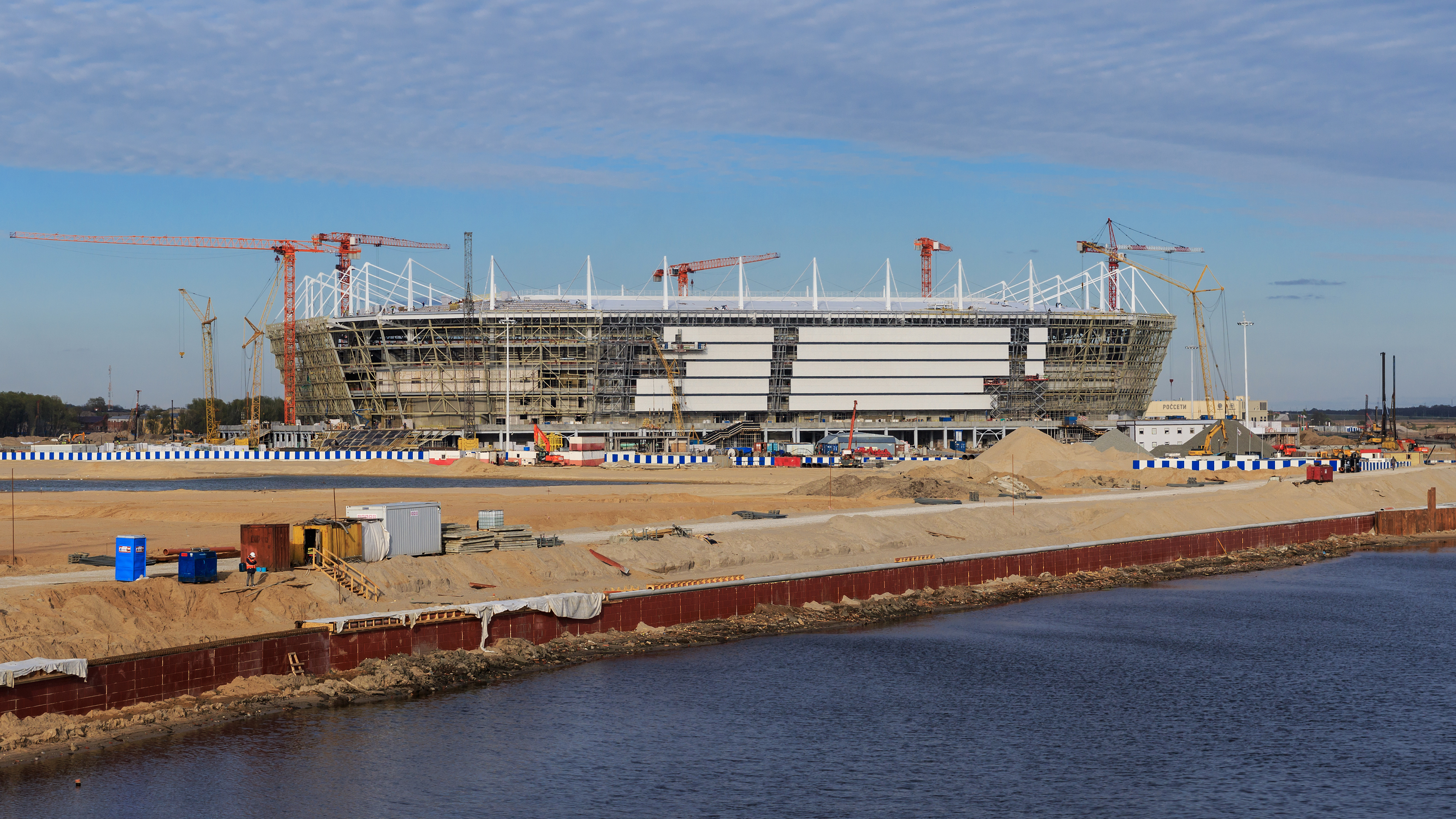 Construction site of FIFA World Cup 2018 stadium in Kaliningrad formerly Königsberg, Kaliningrad Oblast (Russia).